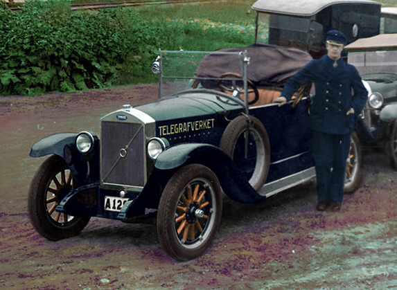 DIG45976: Cars used by the Swedish Telegraph Company. Showed at Gärdet, Stockholm about 1928. Volvo built 70 of these open-topped pickups called ÖV4 TV, mainly for the Swedish Telegraph Company, later the national telecommunications company. A small number were also exported to Denmark.